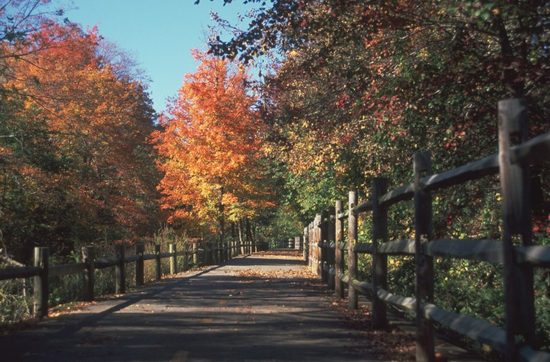 The Blackstone River Bikeway in Rhode Island, October 2006. Photo was taken about a mile south of the Martin Street bridge, facing north up the path.